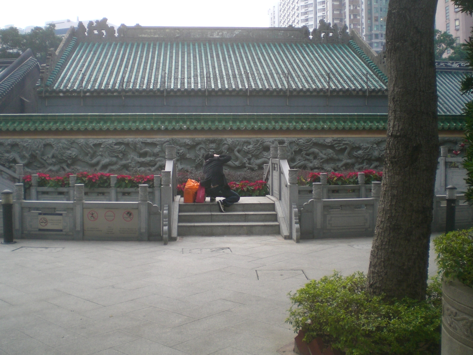 油麻地 & 背景是油麻地天后廟屋頂